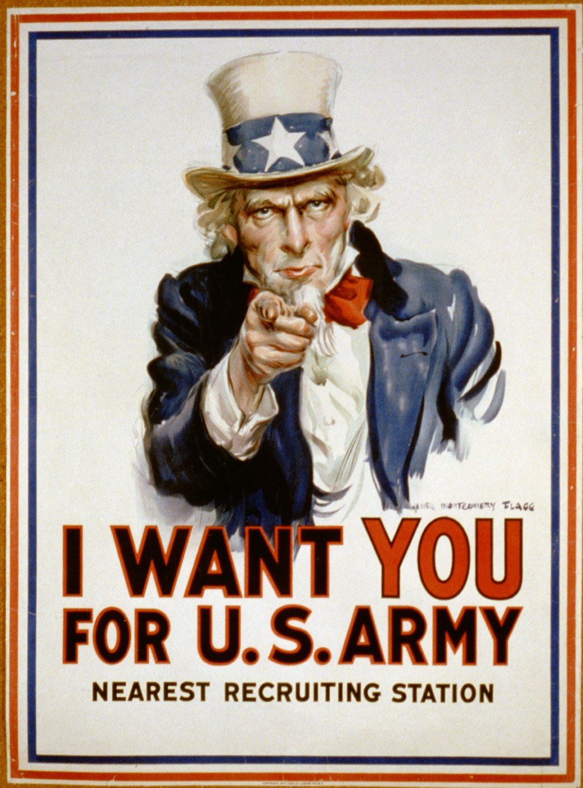 Poster shows Uncle Sam pointing his finger at the viewer in order to recruit soldiers for the American Army during World War I. The printed phrase "Nearest recruiting station" has a blank space below to add the address for enlisting.